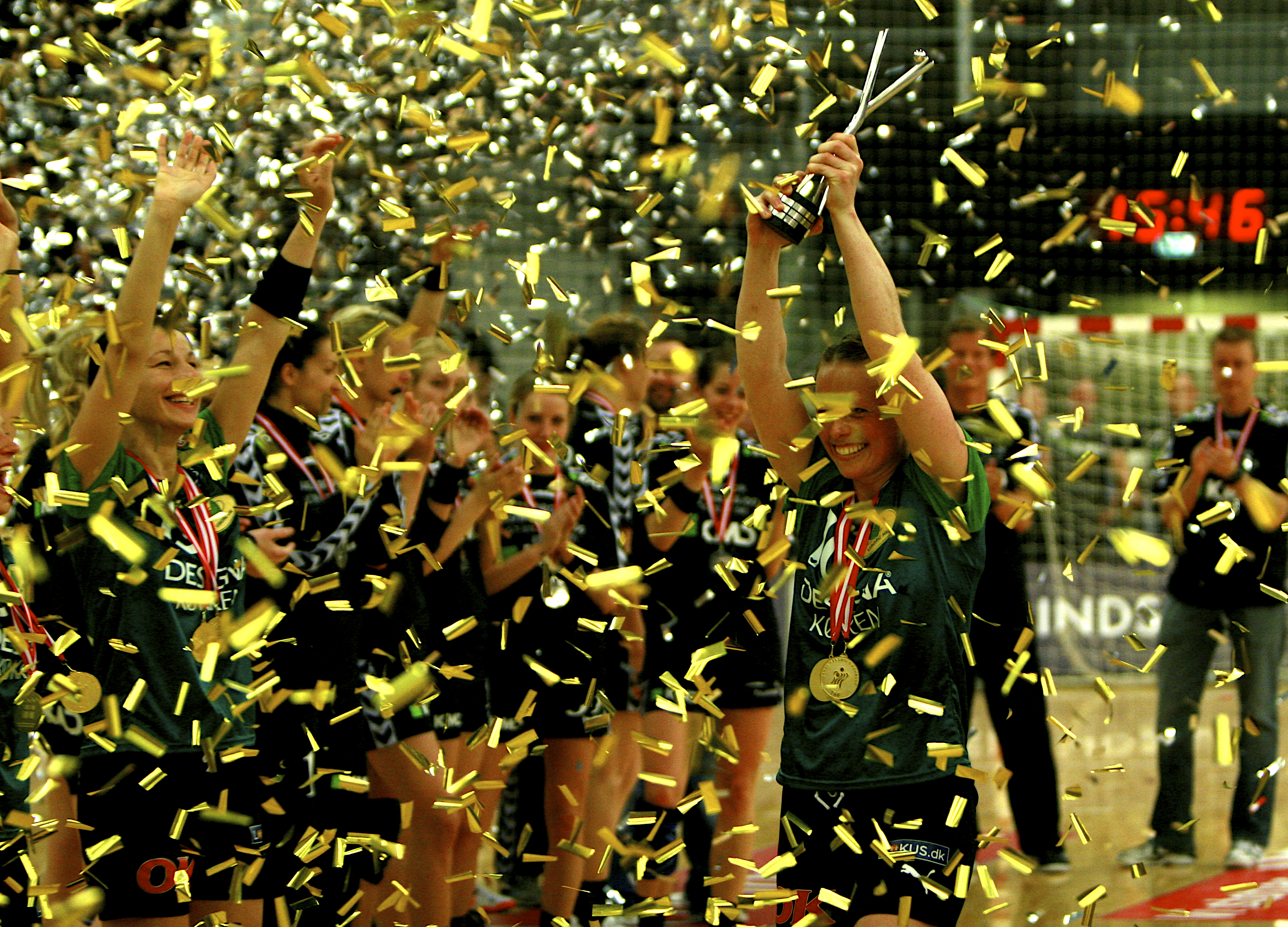 Henriette Mikkelsen holding the danish championship trophy.